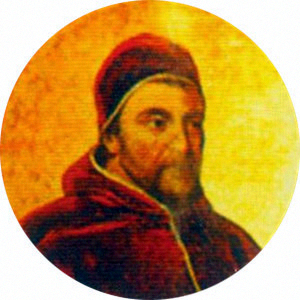 Portait of Pope Clement VII in the Basilica of Saint Paul Outside the Walls, Rome